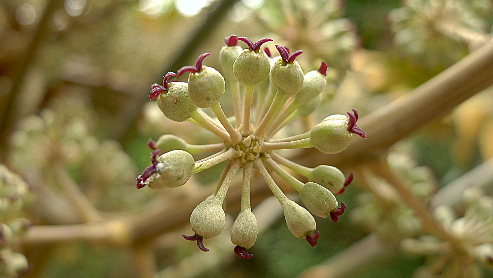 Schefflera morototoni (Aubl.) Maguire, Steyerm. & Frodin